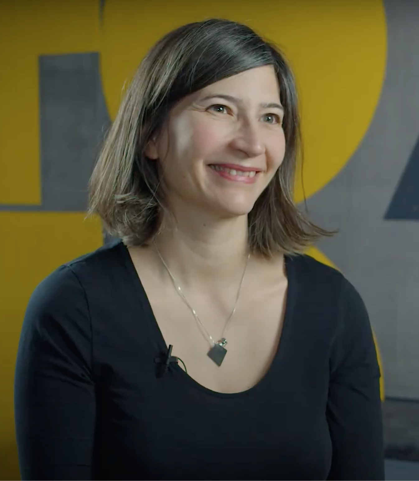 Marie Birde, Swedish journalist. Screenshot from a video interview made by Internetmuseum 2020.